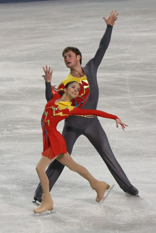 Vera Bazarova and Yuri Larionov at the 2009 Skate Canada International.